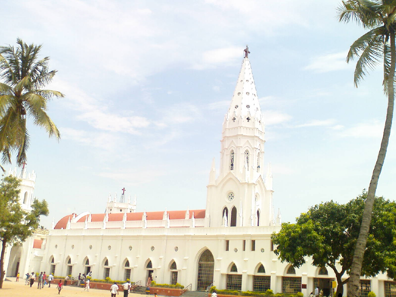 Poondi Matha Basilica